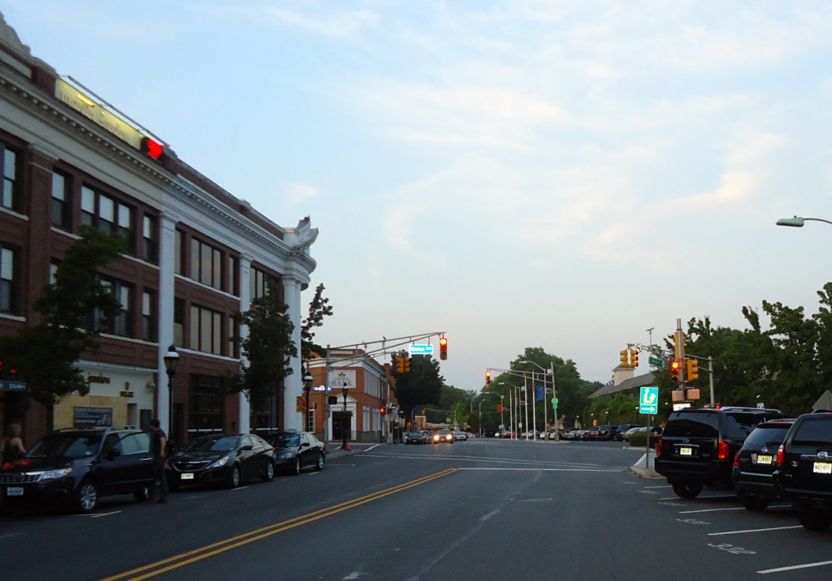 Street scene with the train station at the lower right.